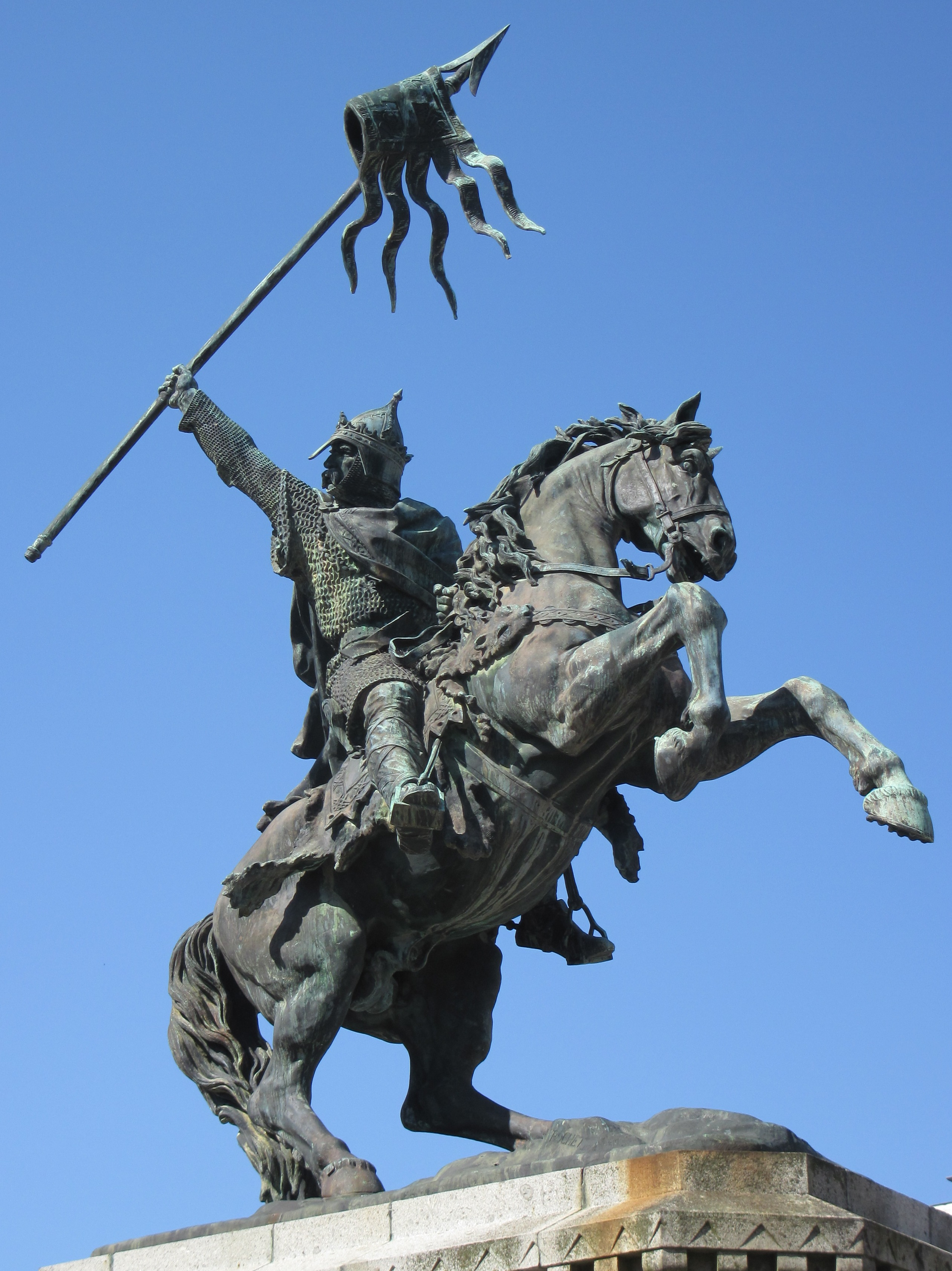 Monument to William the Conqueror at Falaise (Calvados, Basse-Normandie). The equestrian statue of the seventh Duke of Normandy, sculpted by Louis Rochet (1818-1873), was built in 1851. On the pedestal, statues representing the preceding six dukes were added in 1875.